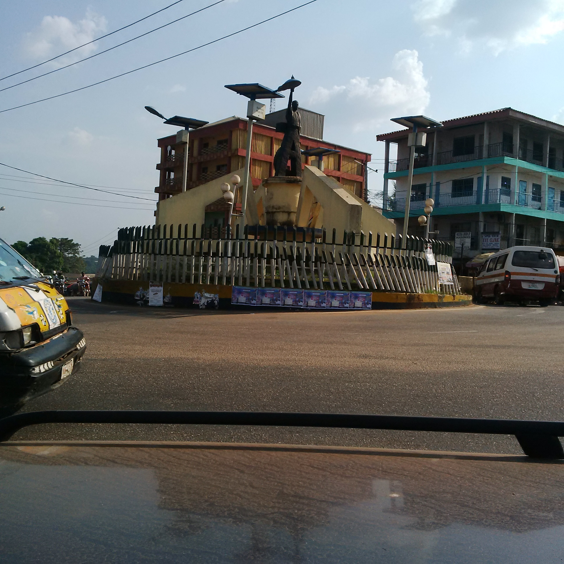 A roundabout, a mainroad,some vehicles